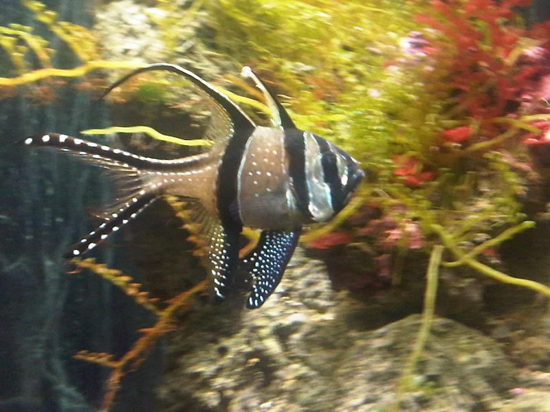 Pterapogon kauderni in Kew Gardens, England.